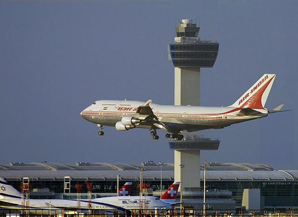 planes at JFK2